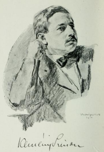 Portrait of Kemény Simon